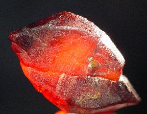 Clinohumite Locality: Koksha Valley (Kokscha; Kokcha), Badakhshan (Badakshan; Badahsan) Province, Afghanistan (Locality at ) A cluster of two sharp crystals 1.5 x 1 x 0.5 cm (4.39 carats) Probably From Jikhan(RWMW)